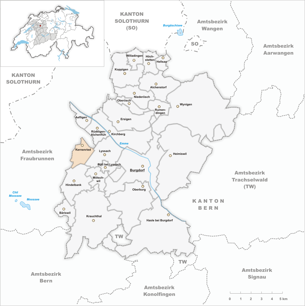 Municipality Kernenried